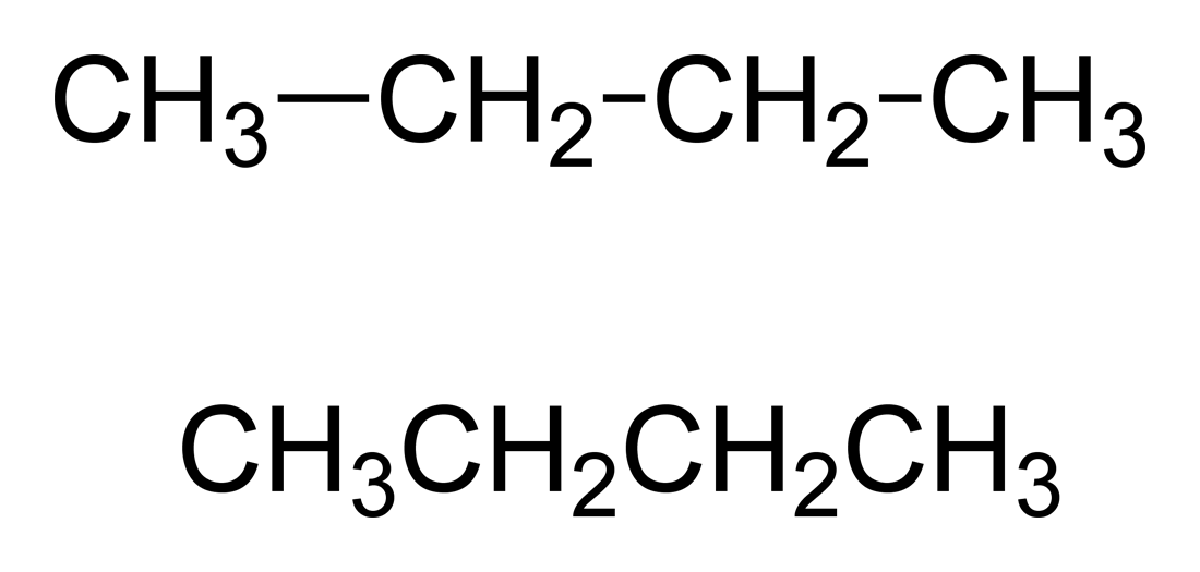 Condensed formulae of butane, C4H10.